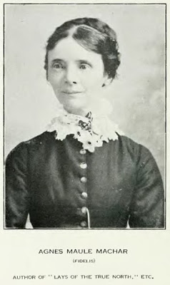 Photo of Agnes Maule Machar (a.k.a. Fidelis) taken from Canadian Singers and Their Songs, compiled by Edward S. Caswell (Toronto: McCleland & Stewart, 1919).